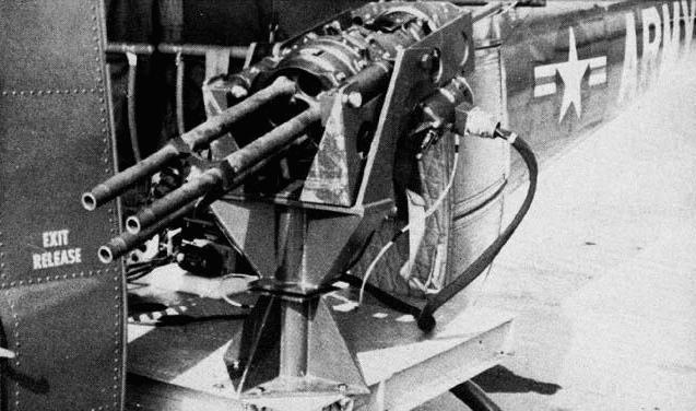 m197 gattling gun from [ ( doesn't source the pictures they collect) Image originally from [1], via [2]; no specific copyright owner given, so can be assumed to be US Army property and thus PD. "M197 20mm door gun on UH-1B "Huey""